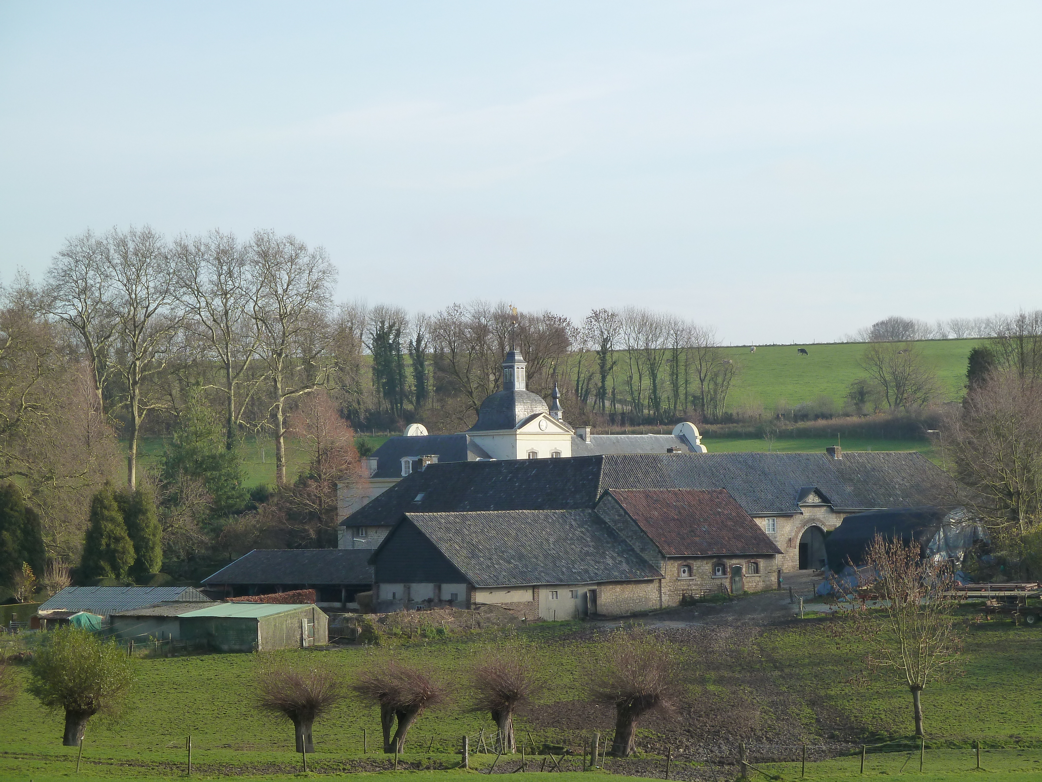 Castle Goedenraad, Eys, Limburg, the Netherlands